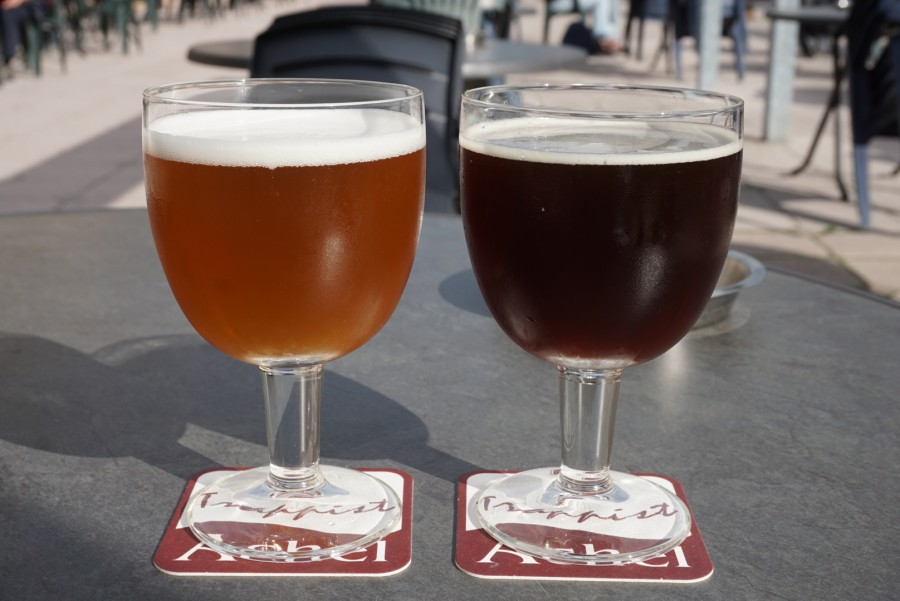 Achel 7° Blond and Bruin in the tap room of Achel abbey.